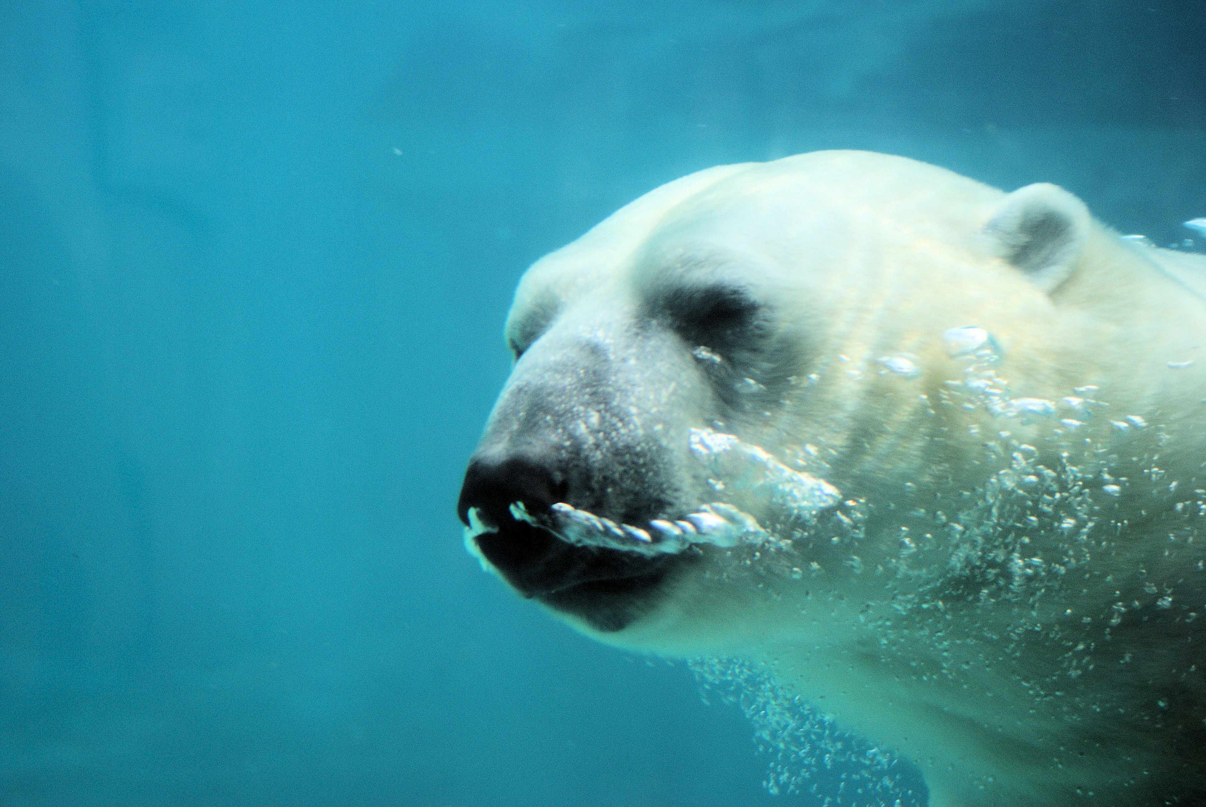 A polar bear swimming in Lincoln Park Zoo, Chicago, Illinios, USA